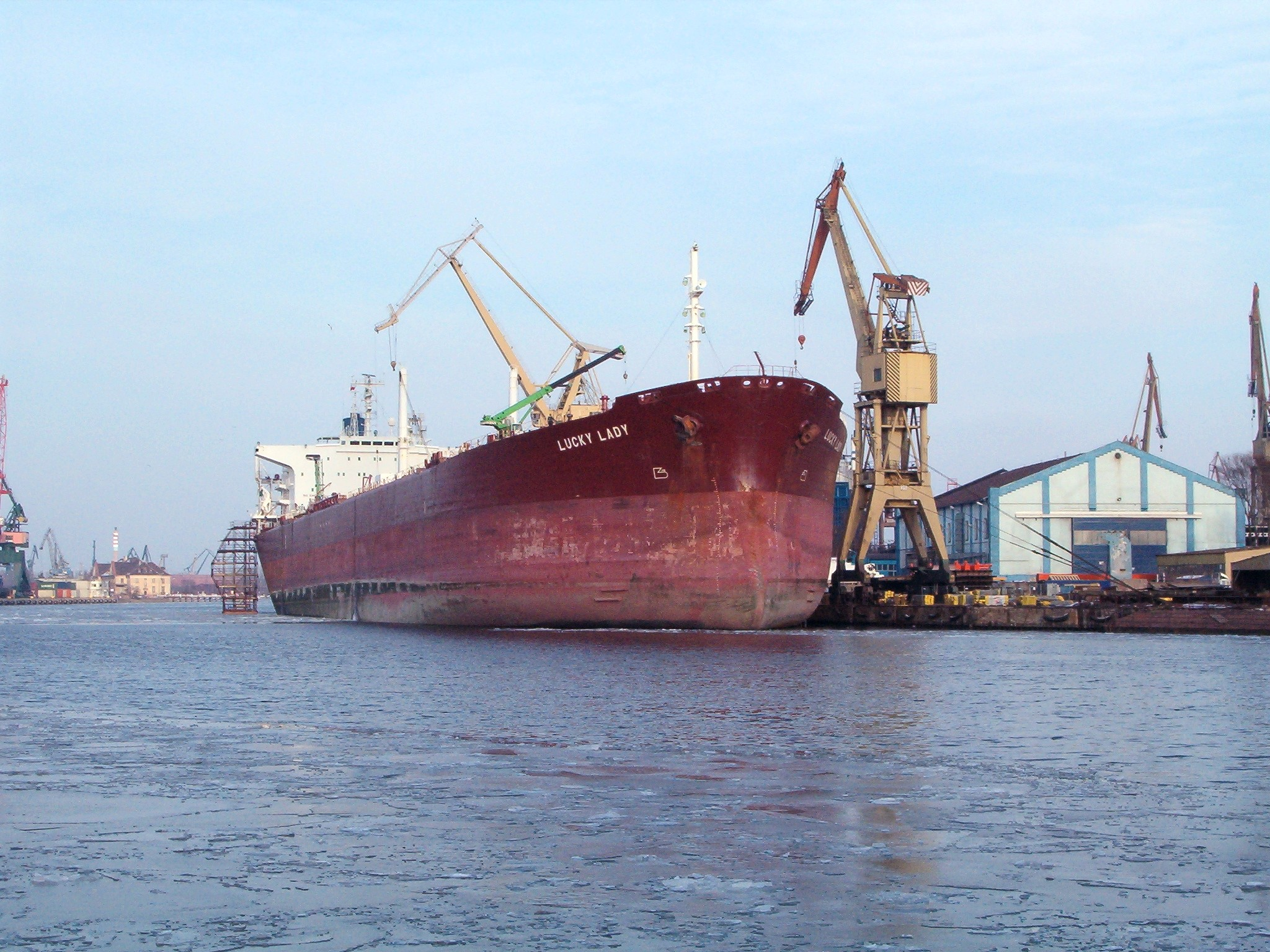 Crude oil tanker Lucky Lady in shipyard in Gdańsk. Ship manager: AWILCO; Oslo, Norway; Flag: Malta.